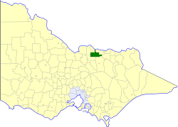 Location of the Shire of Tungamah within Victoria.